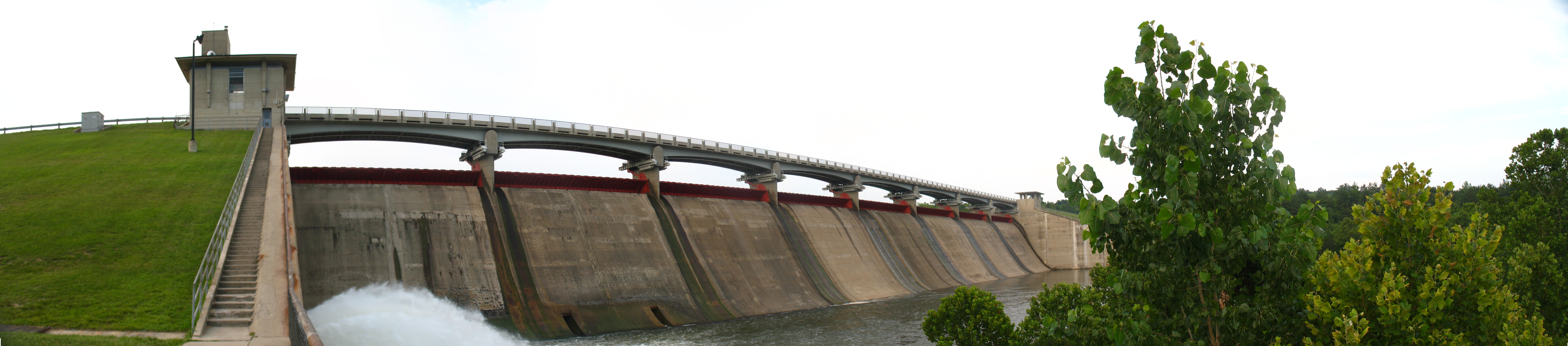 Hoover Dam in Westerville Ohio. Taken on Aug 1st 2008.